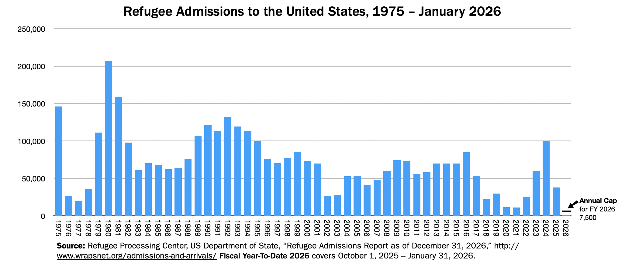 Annual Refugee Admissions to the United States by Fiscal Year, 1975–2019. Fiscal Year-To-Date 2019 covers October 1, 2018 - August 31, 2019; annual cap for FY 2019 is set by the administration at 30,000. Data Source: Refugee Processing Center, US Department of State, “Historical Arrivals Broken Down by Region (1975 – Present),”